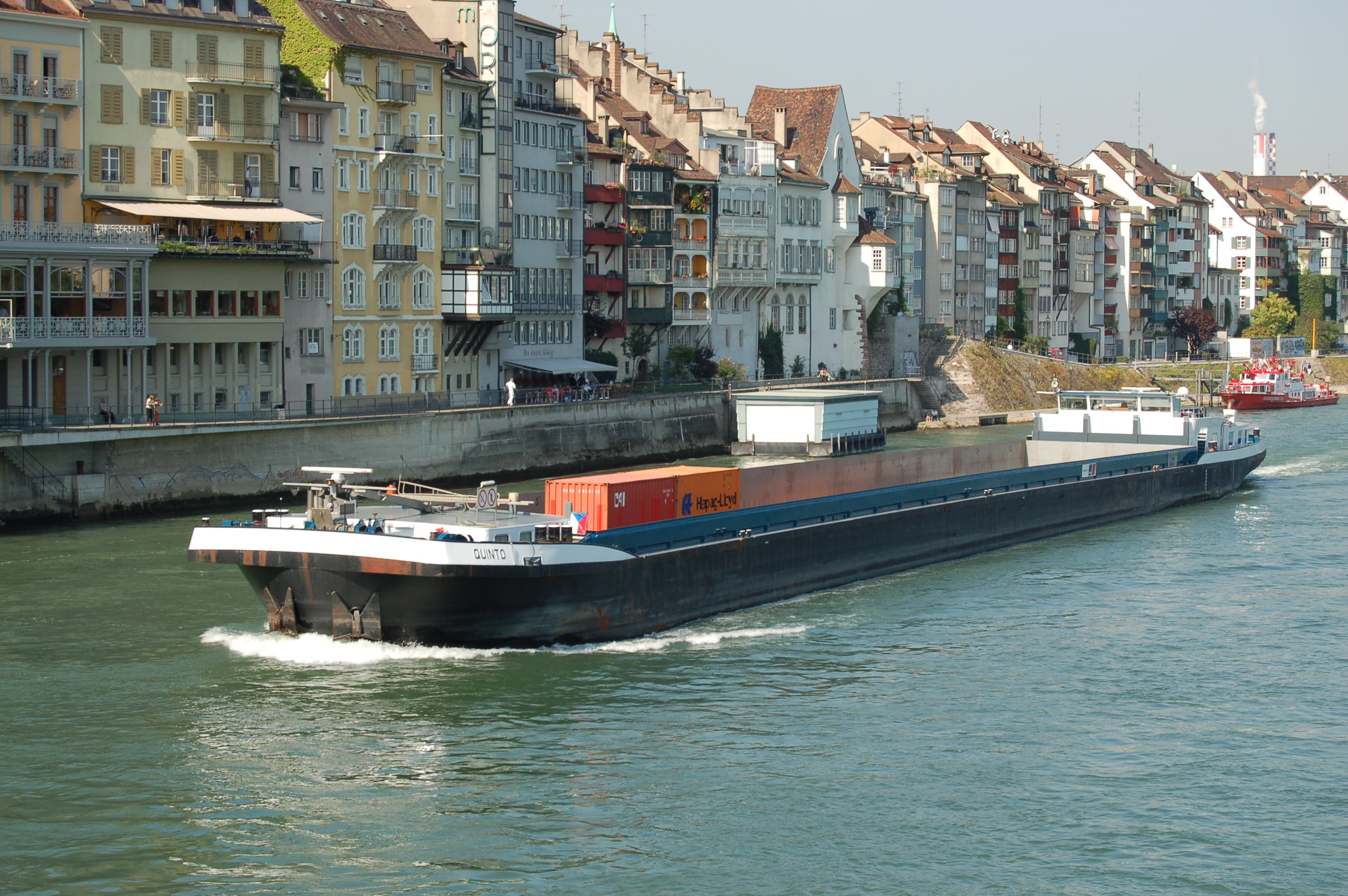 Basle, Switzerland